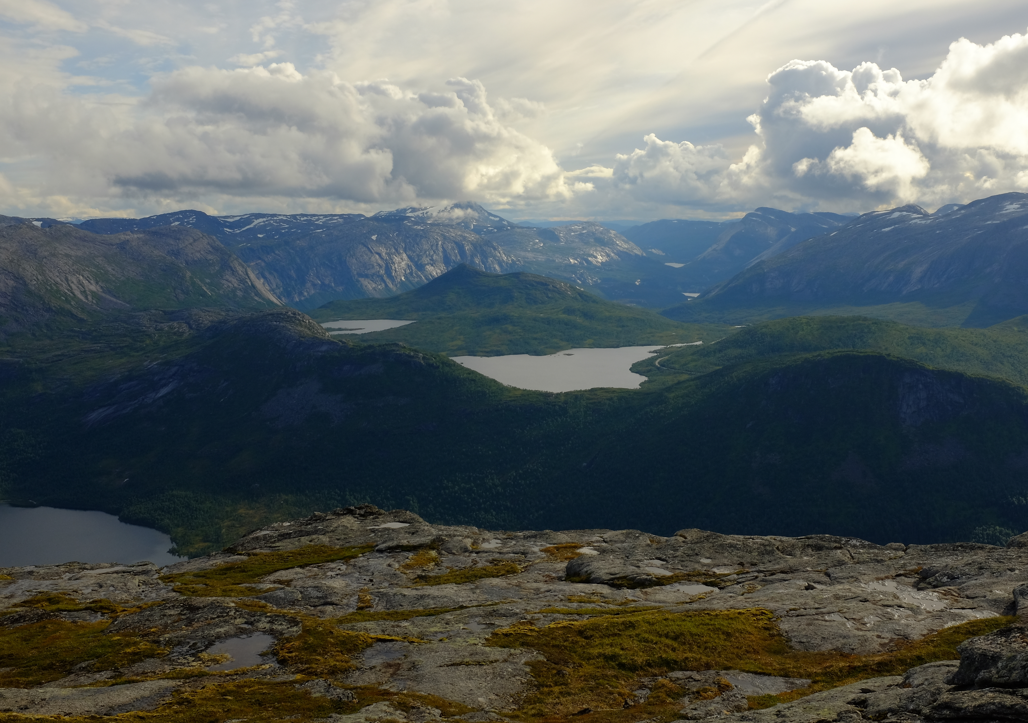 View from Kråkmo Mountain against Tennvatnet lake south in Hamarøy municipality in Nordland county, Norway. The lake has outlet to Mørsvikvatnet and from there to the inlet in Mørsvikbotn fjord.